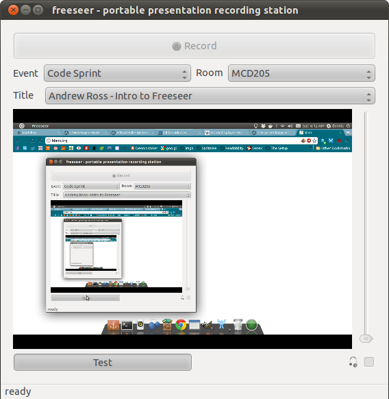 Freeseer version 2.5.3 during a test screencast.